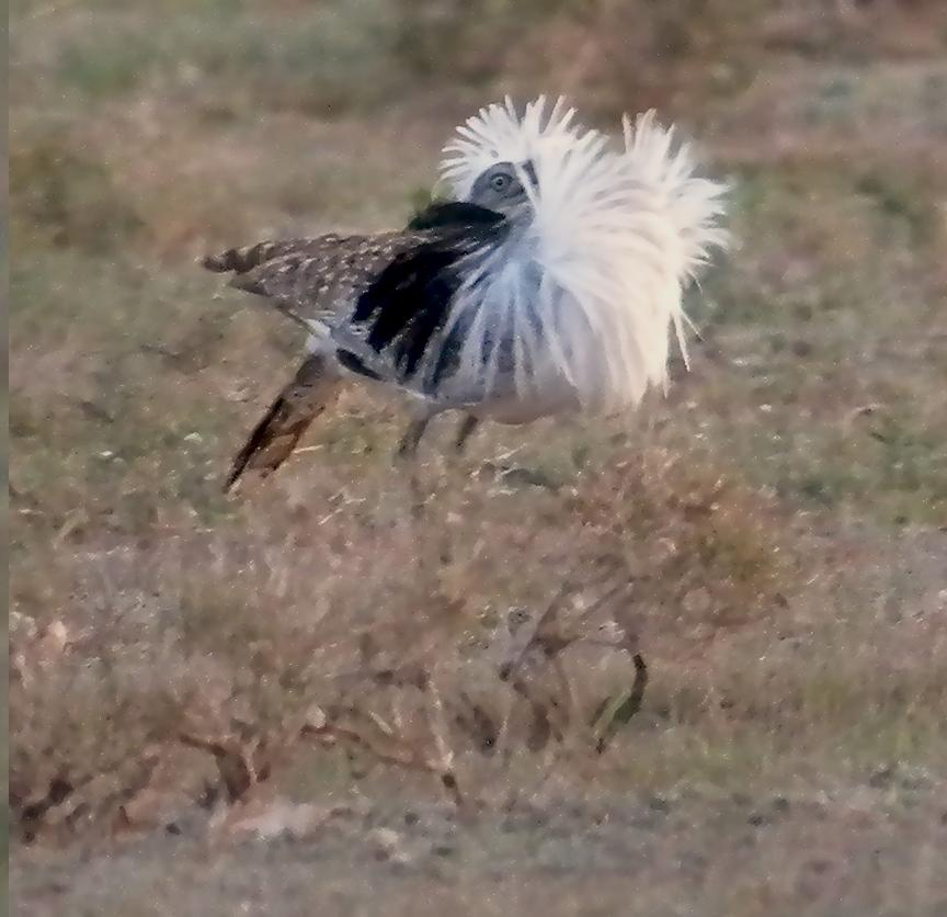 Canarian Houbara Bustard displaying, Teguise, Lanzarote